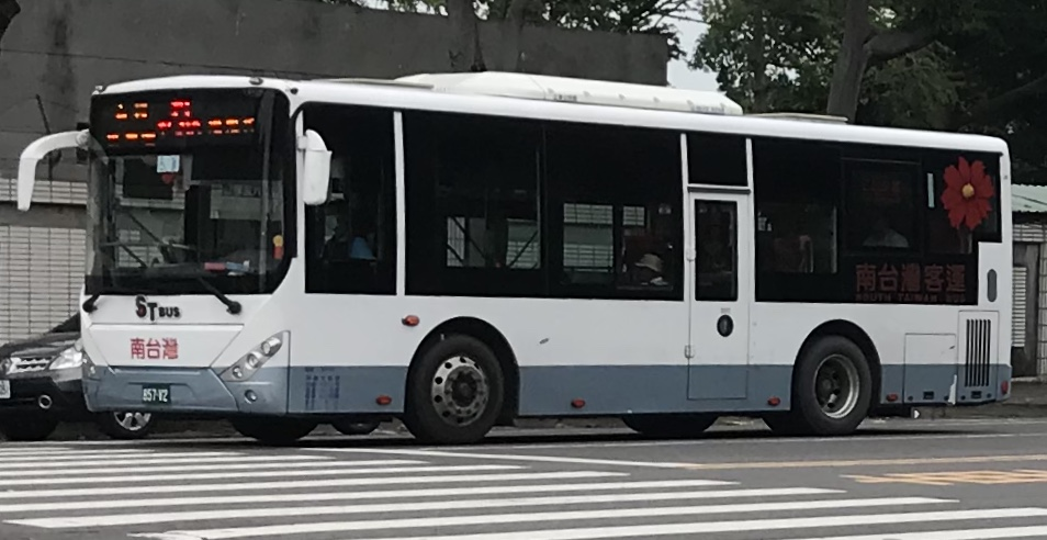 ST Bus R51A 857-V2